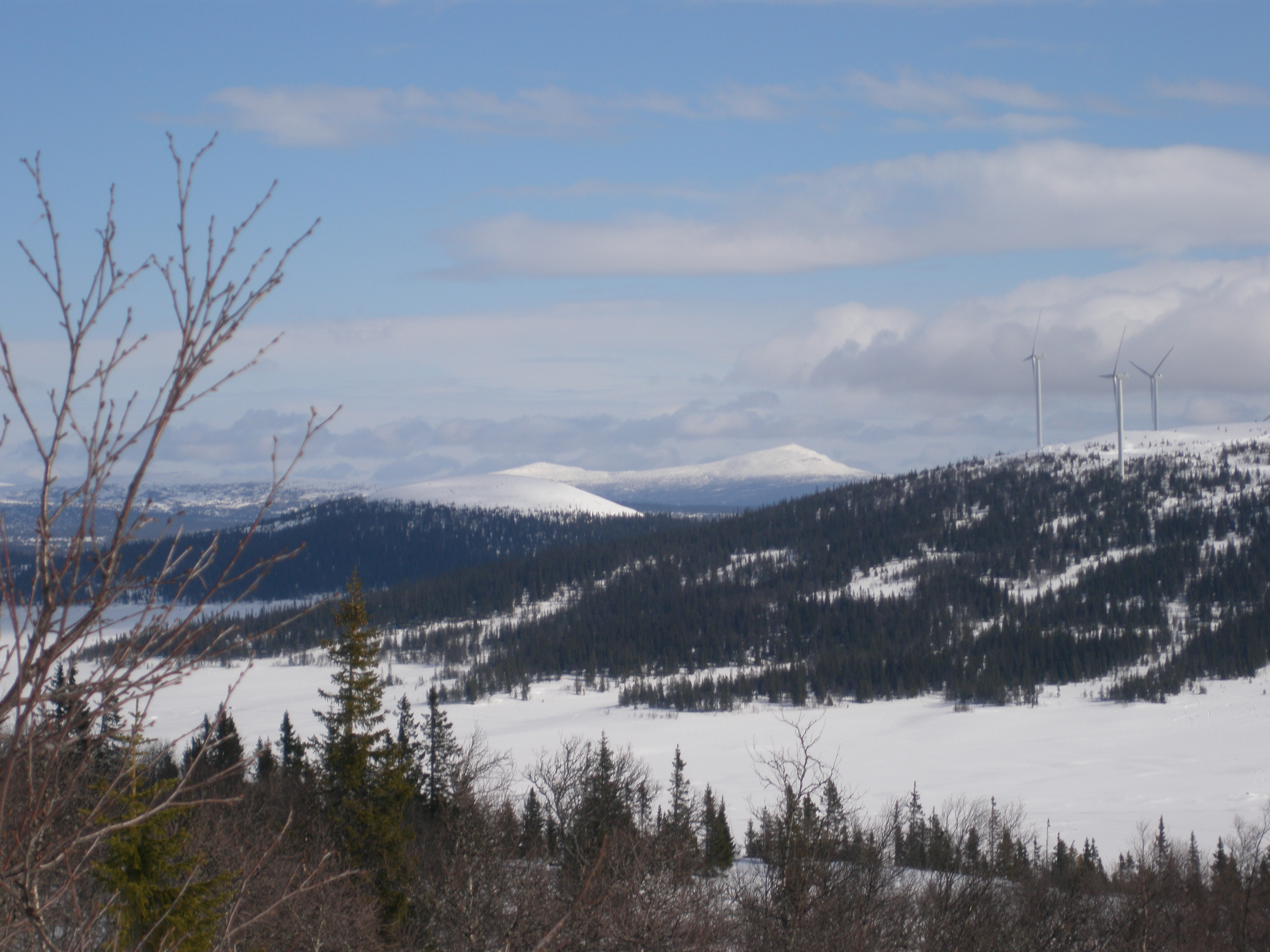 Oldfjällen and Övre Oldsjön, Offerdal, Krokoms kommun, Jämtland, Sweden.